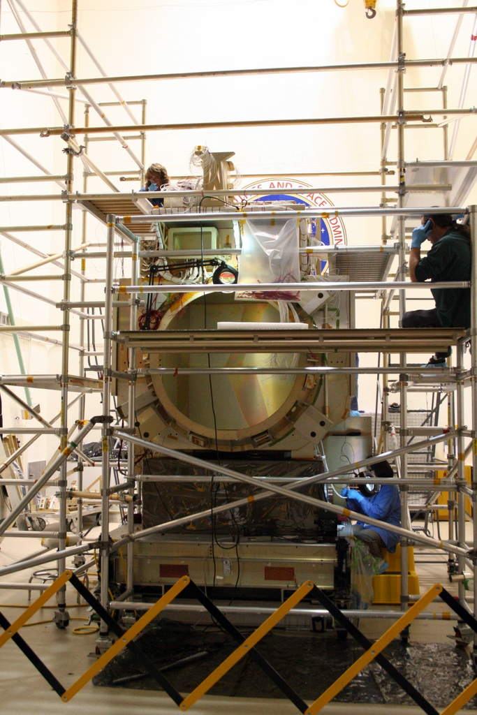 Global Precipitation Measurement core spacecraft undergoing acoustic testing at GSFC